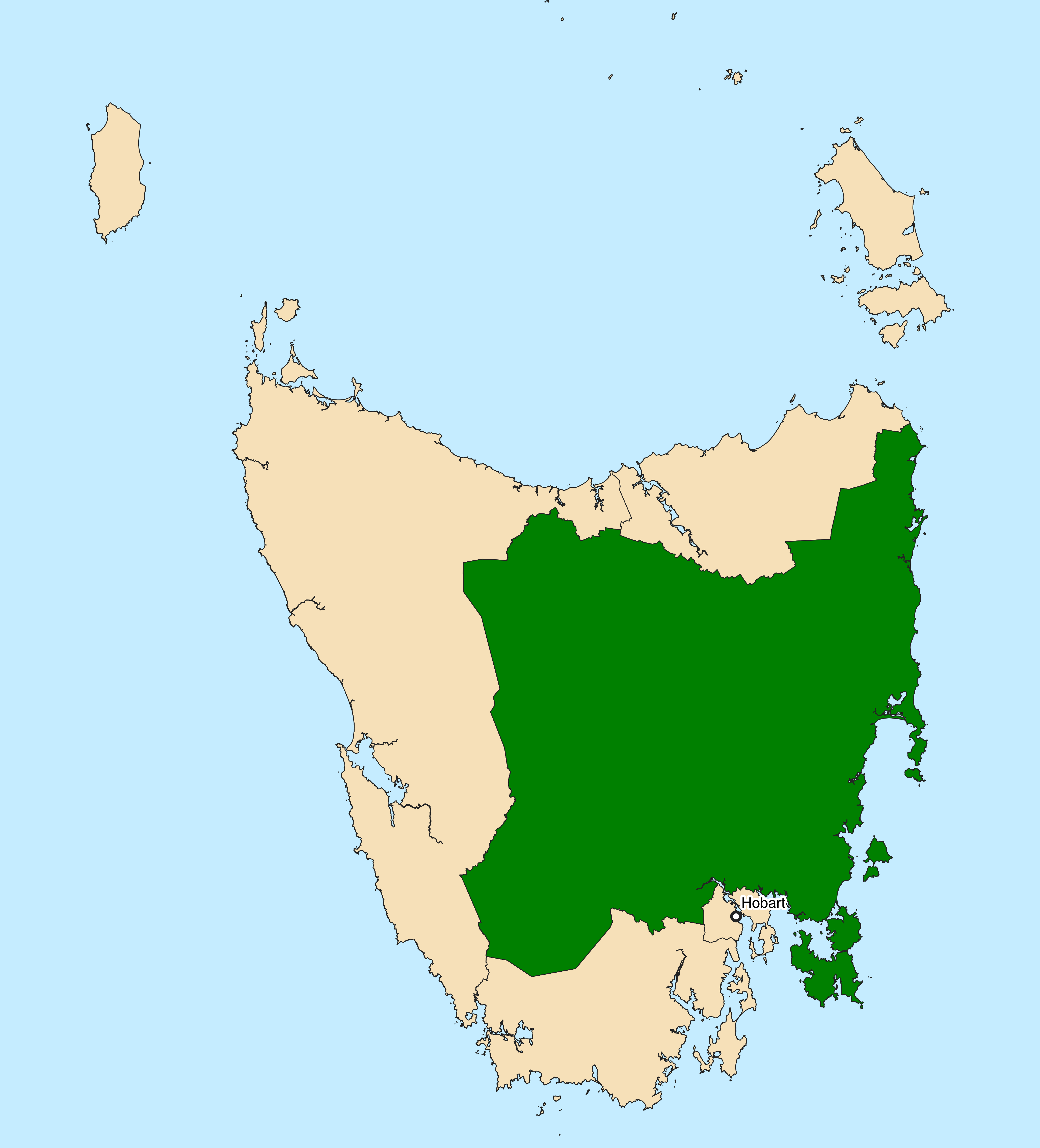 Location of the Australian federal electoral division of Lyons (dark green) in Tasmania as of the 2019 Australian federal election. Incorporates or developed using Administrative Boundaries ©PSMA Australia Limited licensed by the Commonwealth of Australia under Creative Commons Attribution 4.0 International licence (CC BY 4.0).